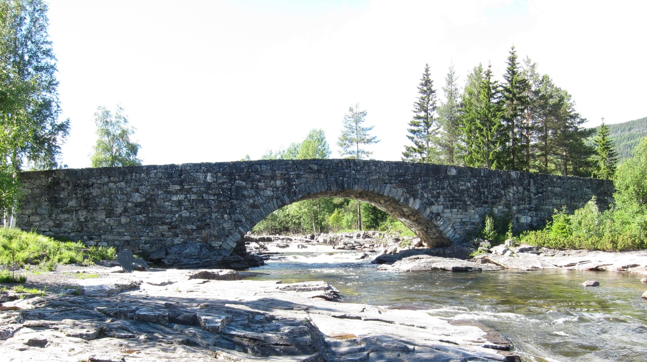 Lunde stone arch bridge on road 251 in Etnedal.